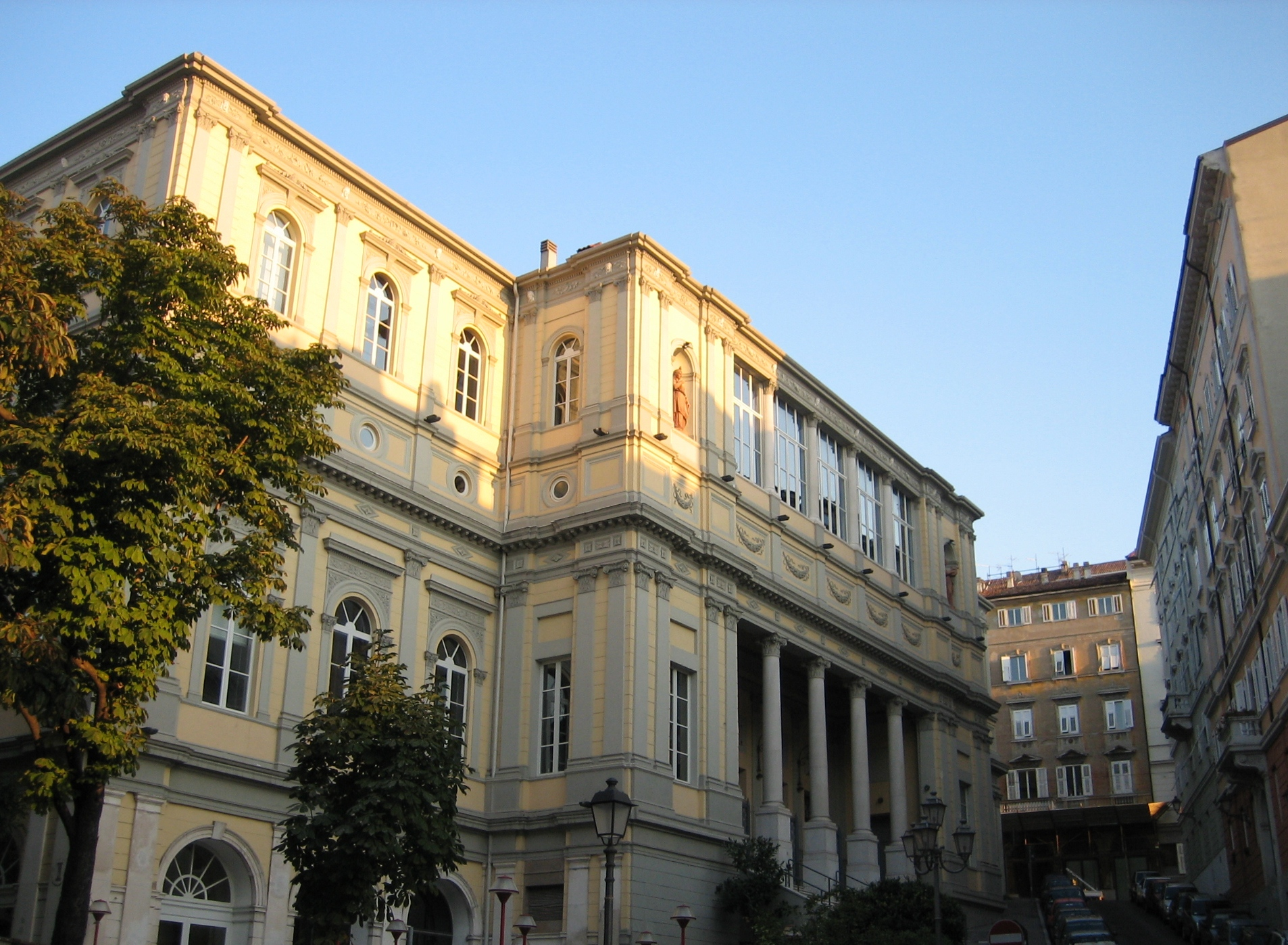 Theater Politeama Rossetti in Trieste, Italy, errected 1877-1878 by architect Nicolò Bruno (1833-1899)